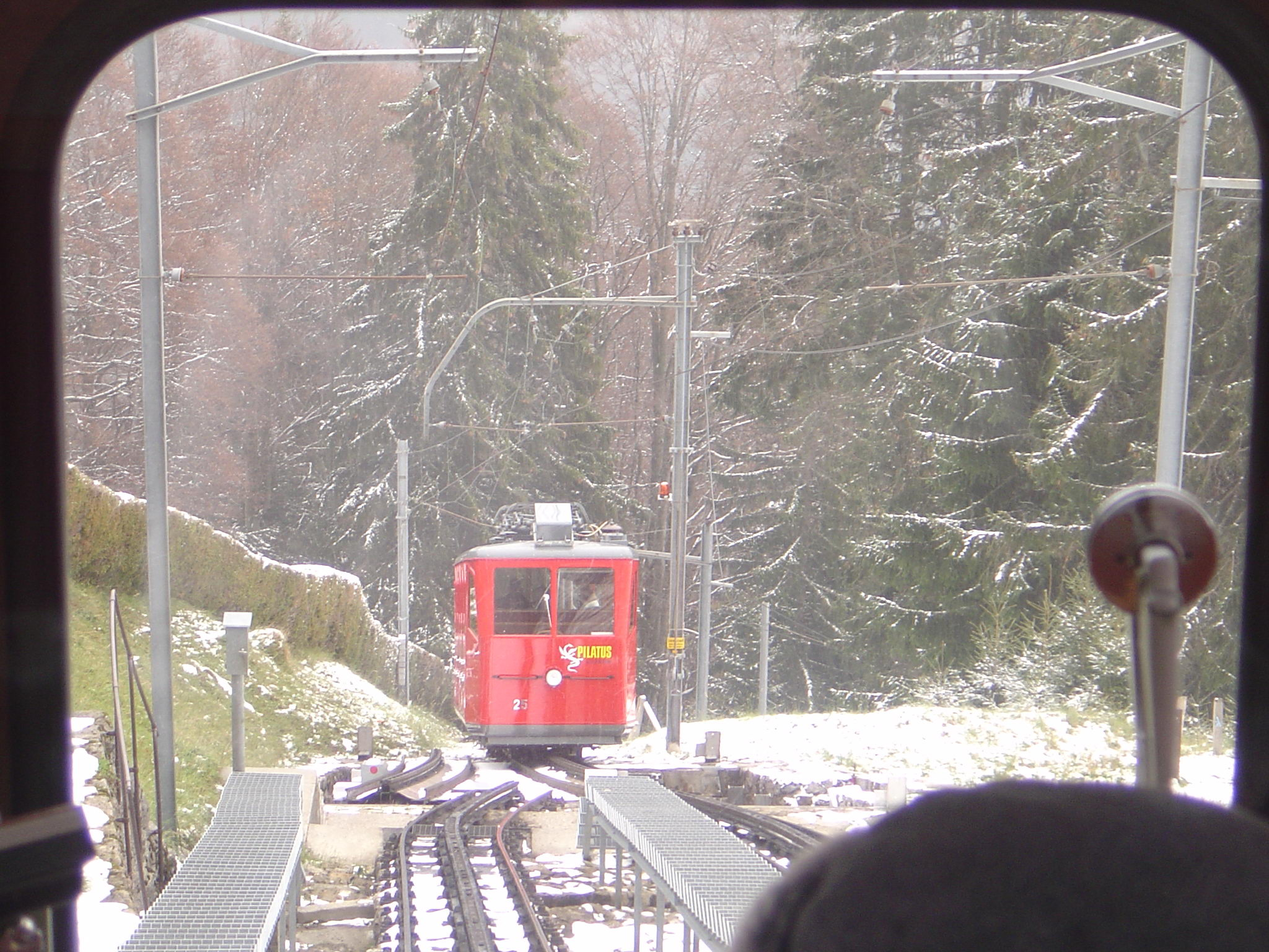 Started to get cold all of a sudden...DSC01940